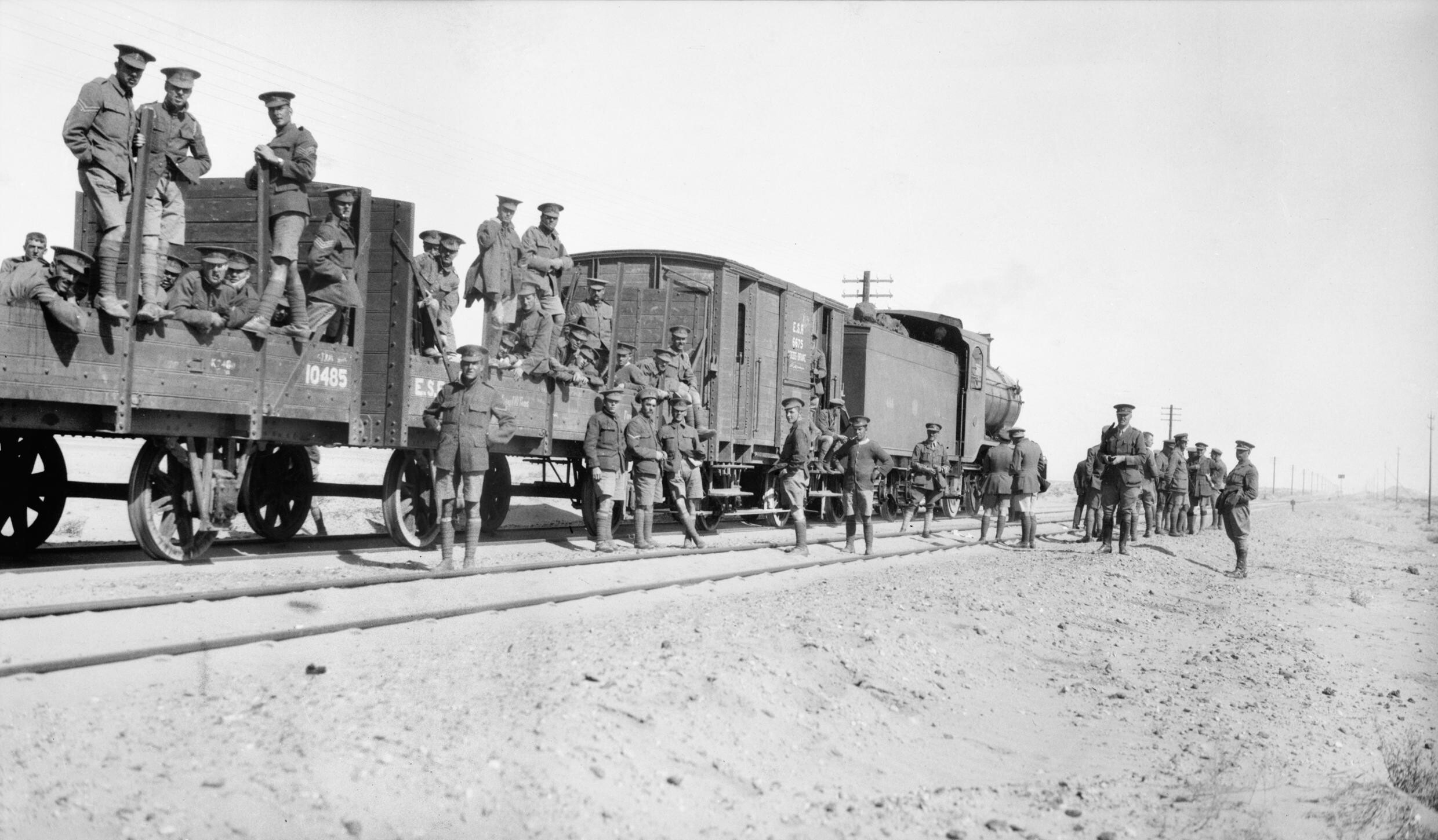 IWM caption : The Advance across the Desert: Open rail trucks full of soldiers of the 1/11th County of London Battalion (Finsbury Rifles) London Regiment, 162nd Infantry Brigade, 54th East Anglian Division, halted during the journey from Suez to Kantara.